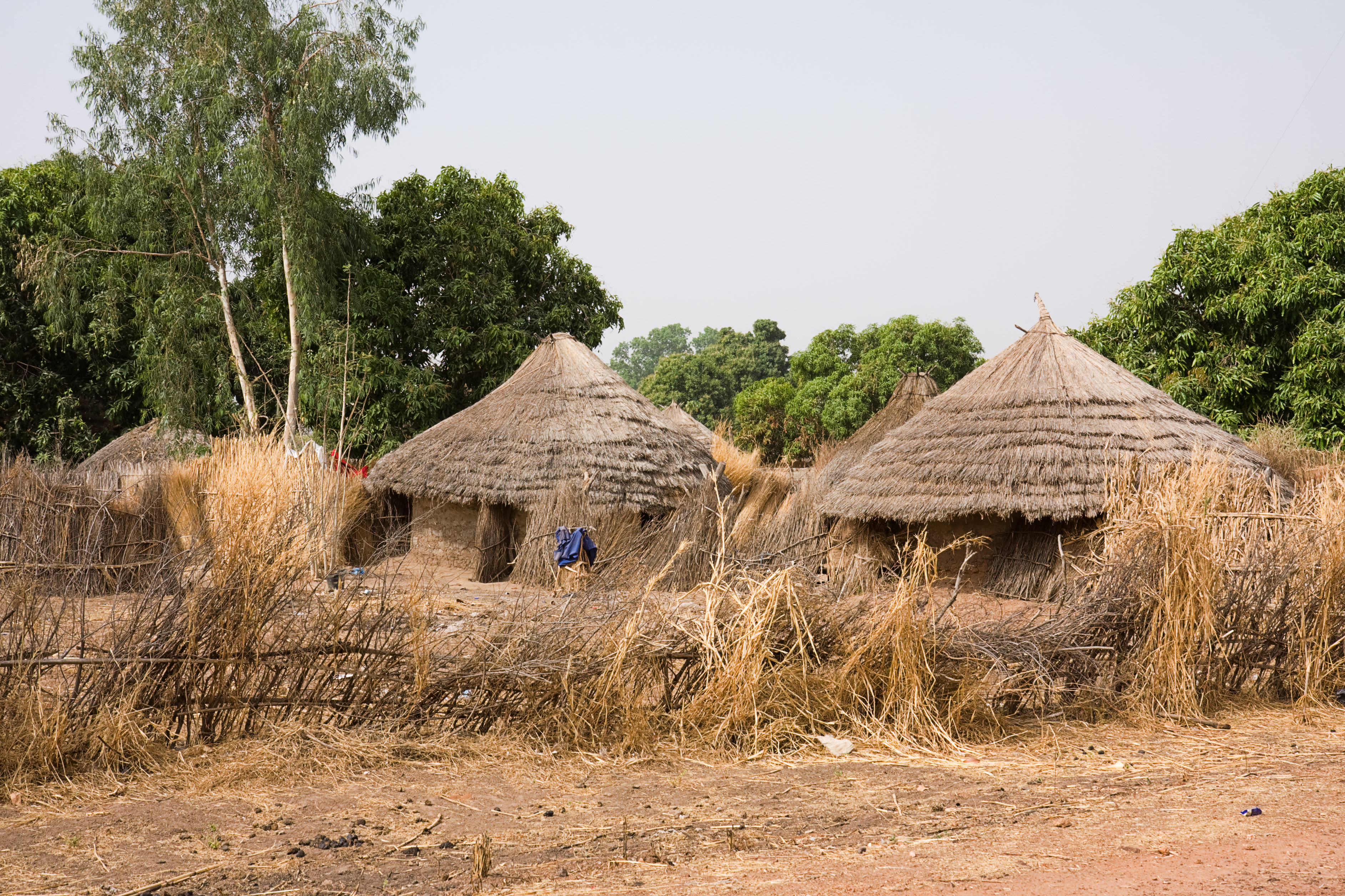 Rural village in the back-country of The Gambia